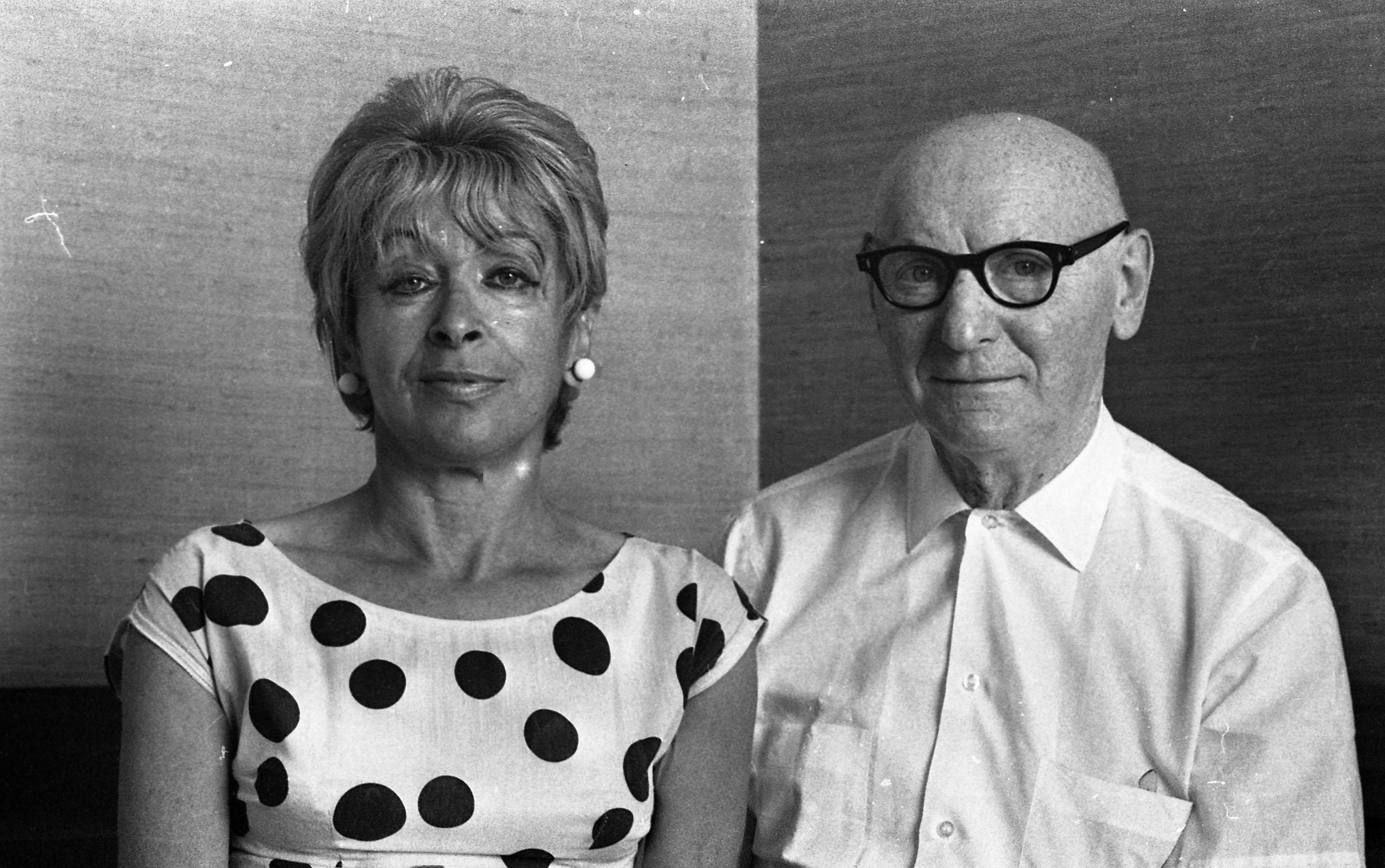 Isaac Bashevis Singer and his wife.